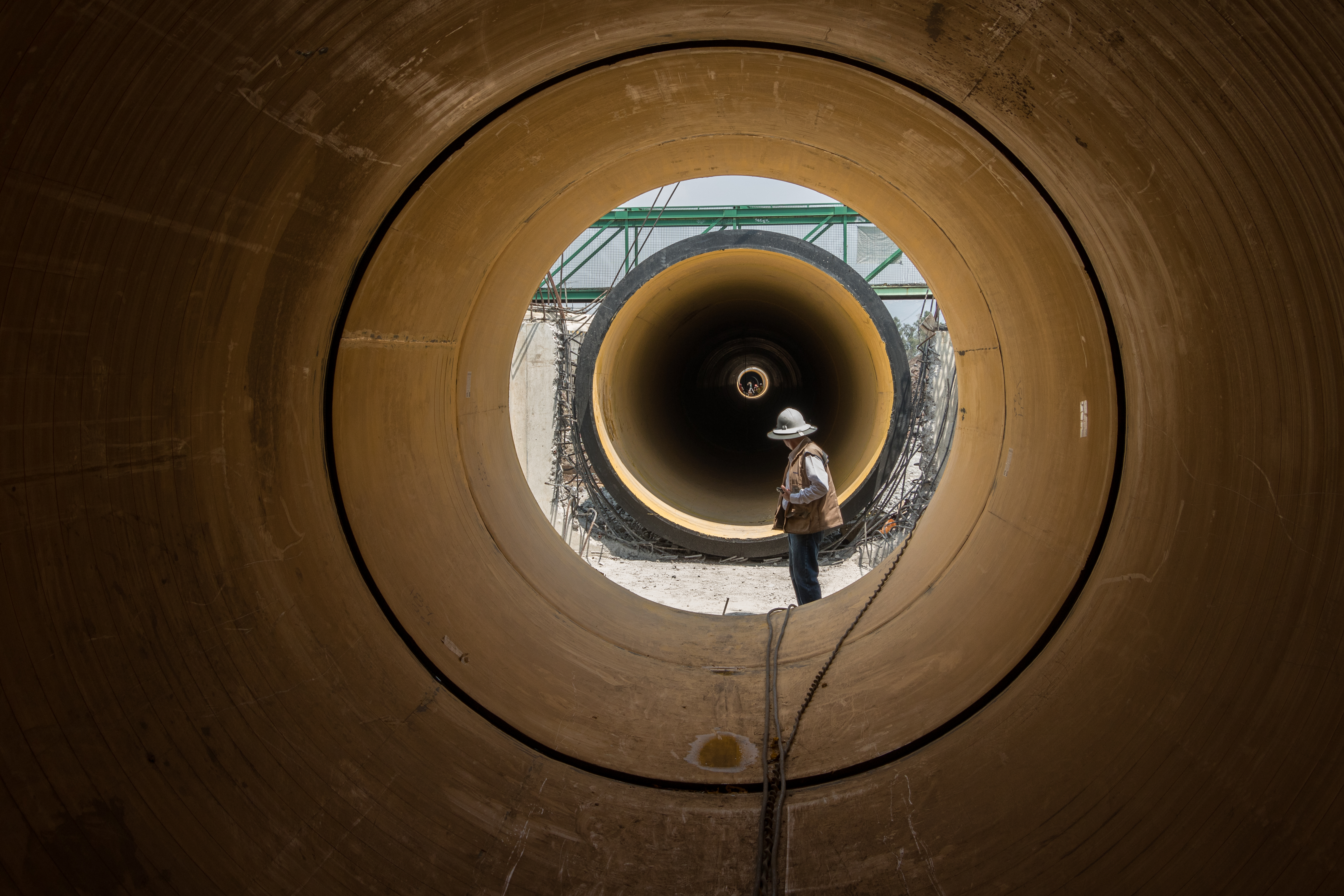 120" inch high density polyethylene (HDPE) sewer pipe instalation in Mexico City. Pipe manufactured by Krah Mexico.